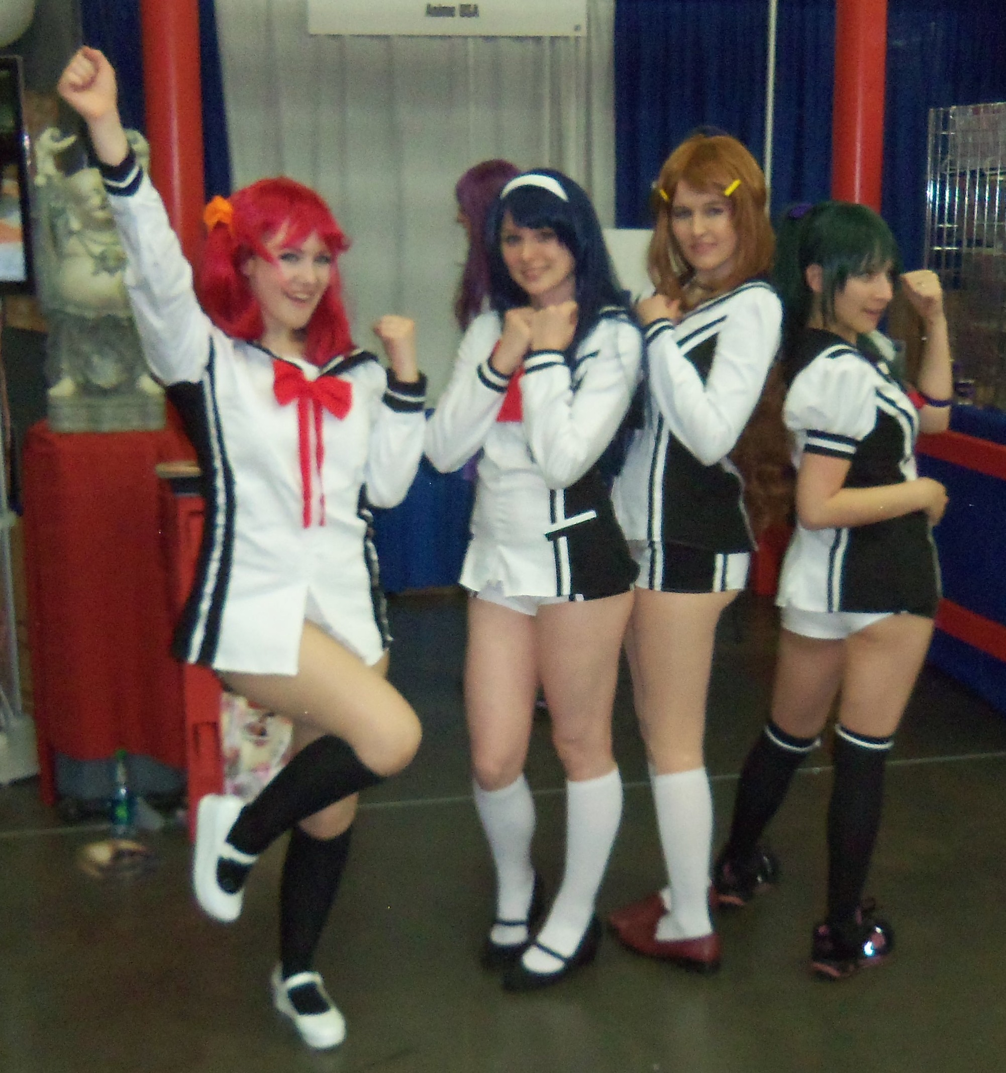 Vividred Operation cosplayers (Akane, Aoi, Himawari and Wakaba)